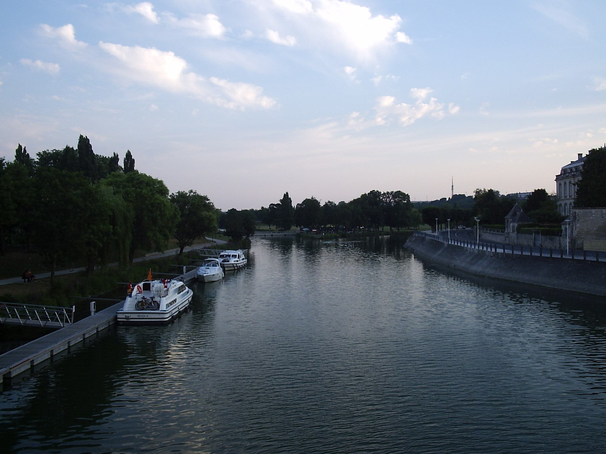 Author : Sebb Date : 2006-07